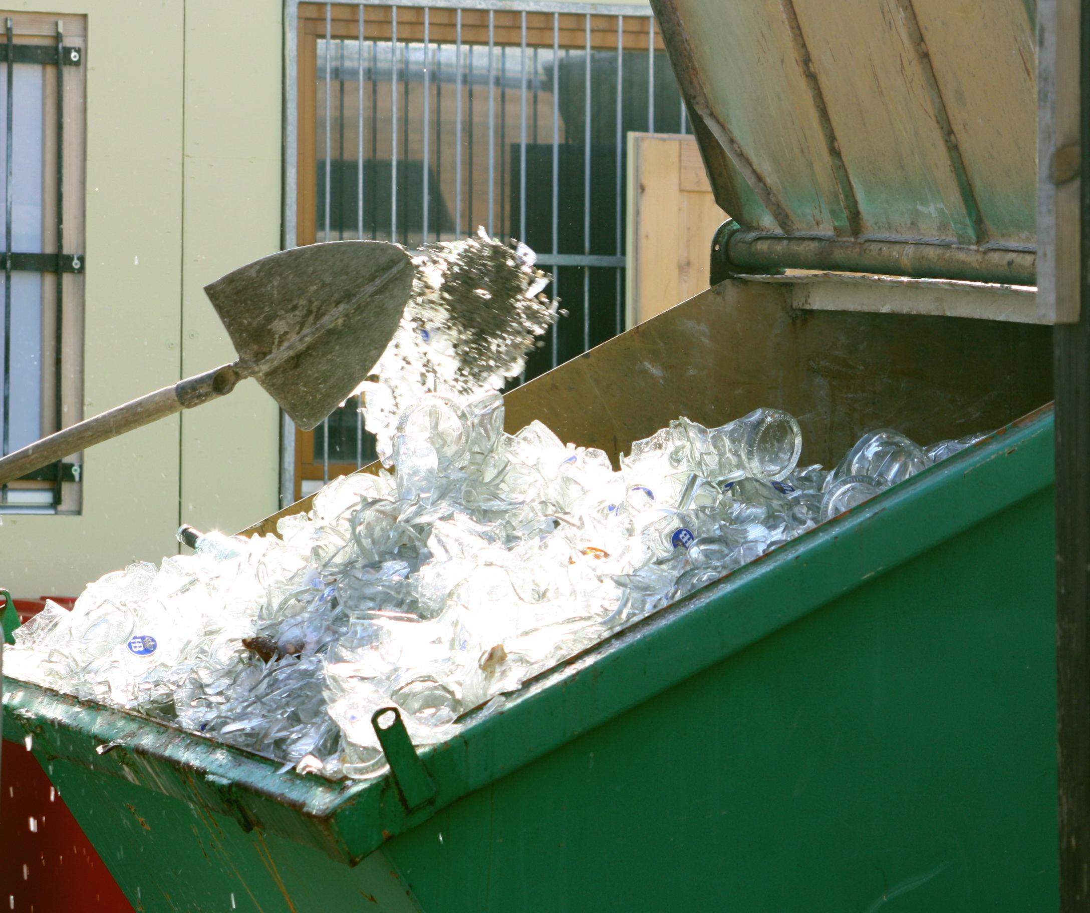 Container for the collection of waste glass. Broken beer mugs are collected here for recycling at the Octoberfest.